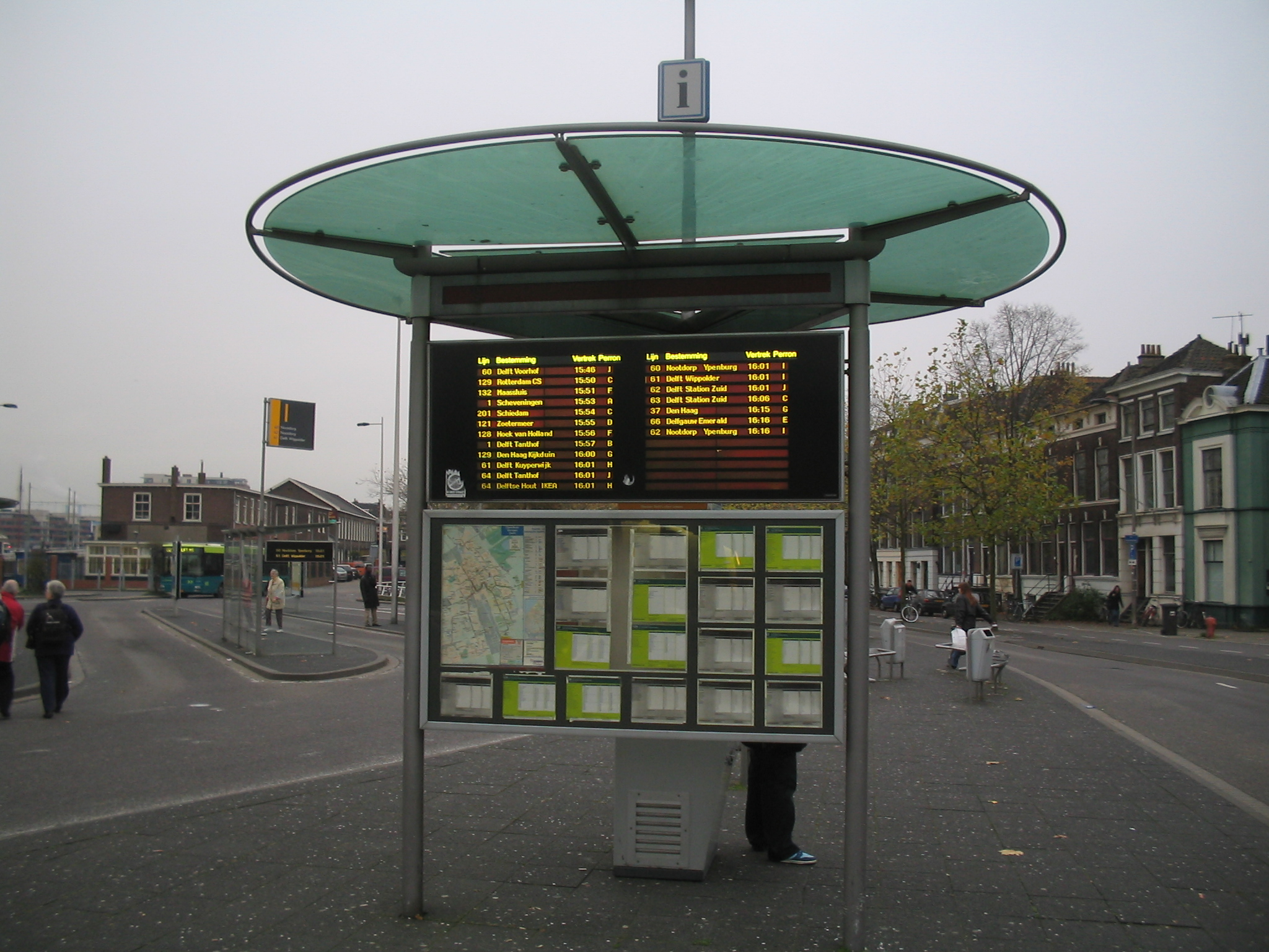 Dynamisch informatiepaneel busstation Delft